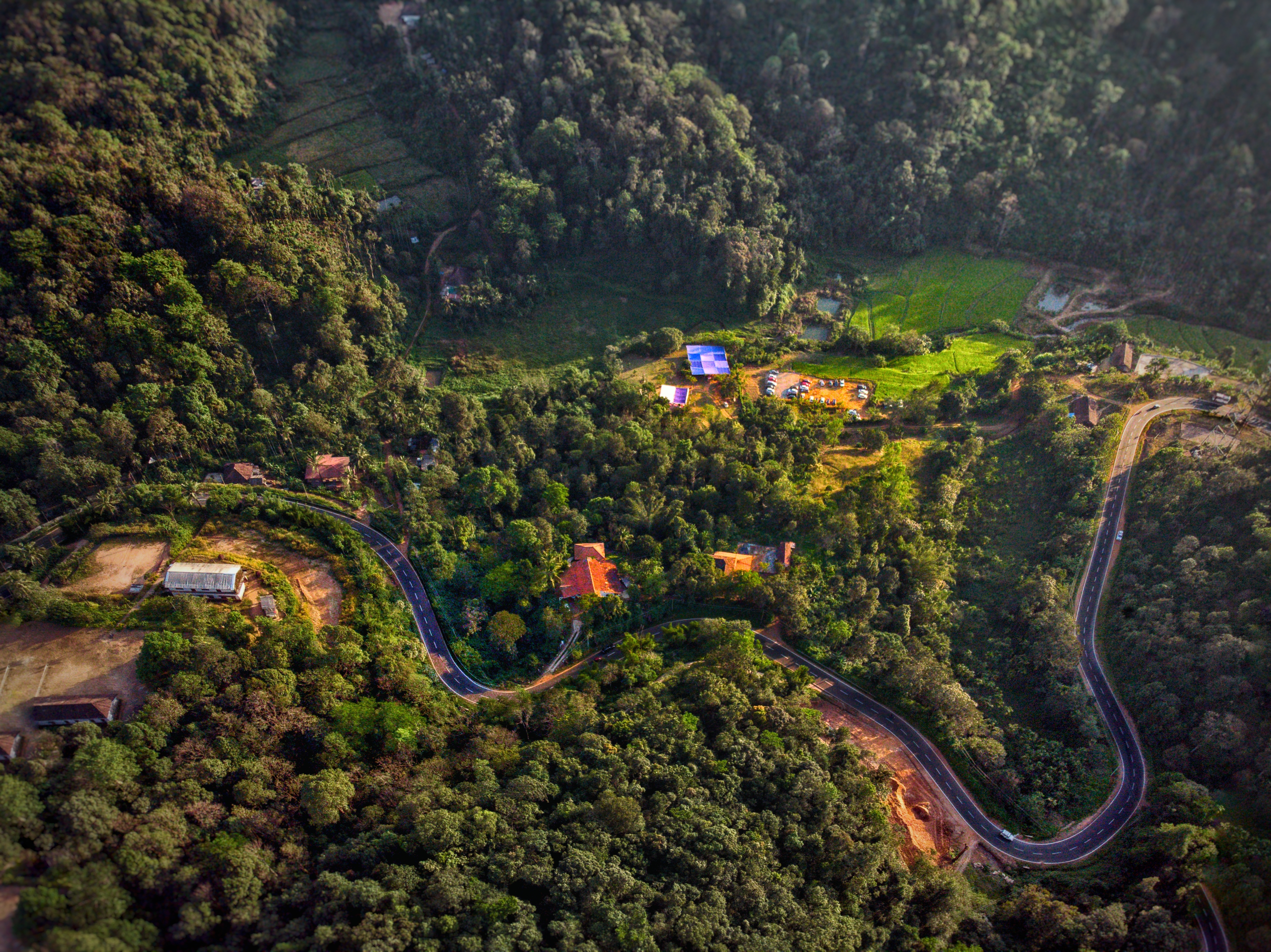 Aerial view of hairpin bends in Coorg